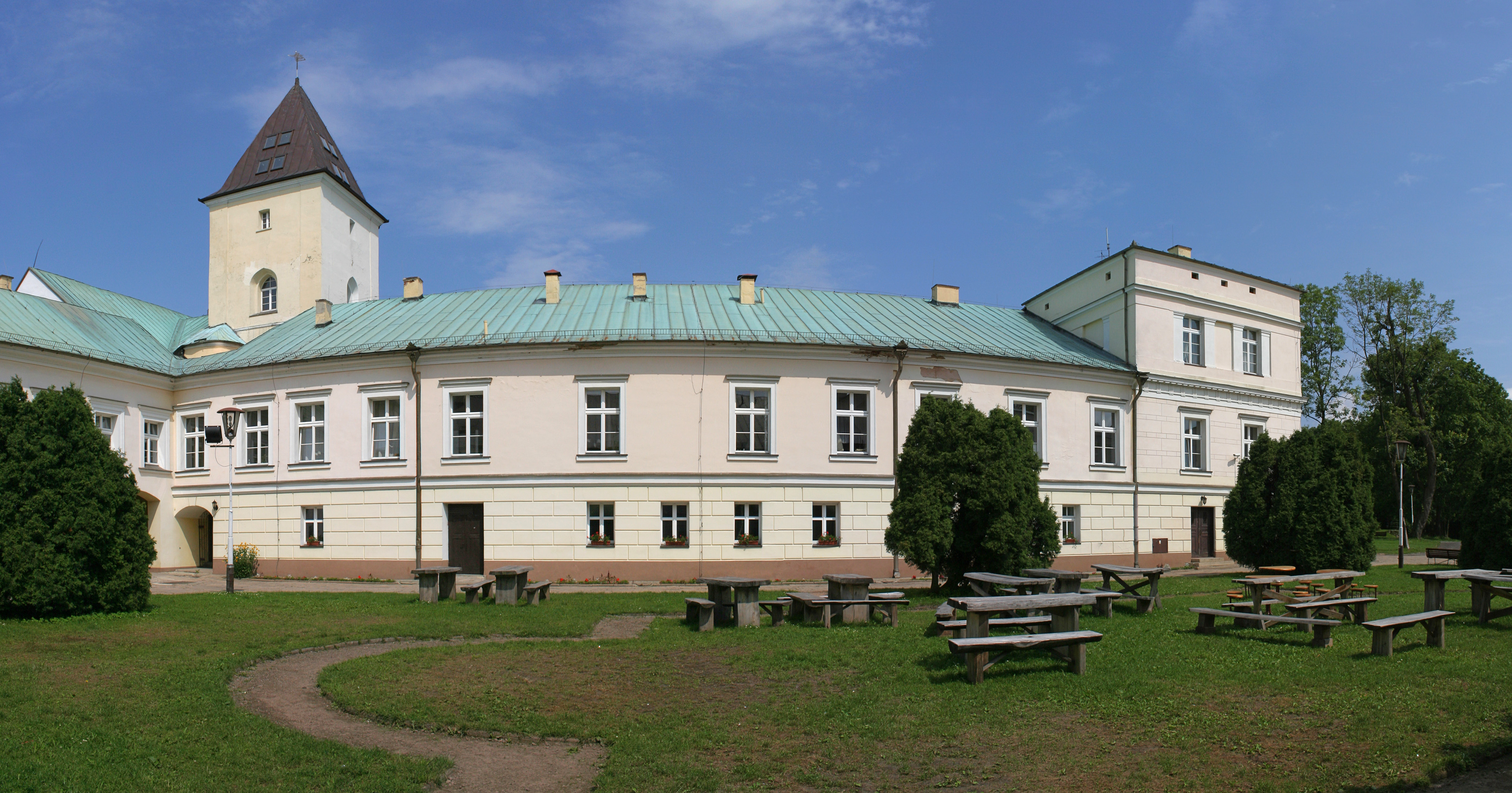 Palace in Koszęcin.